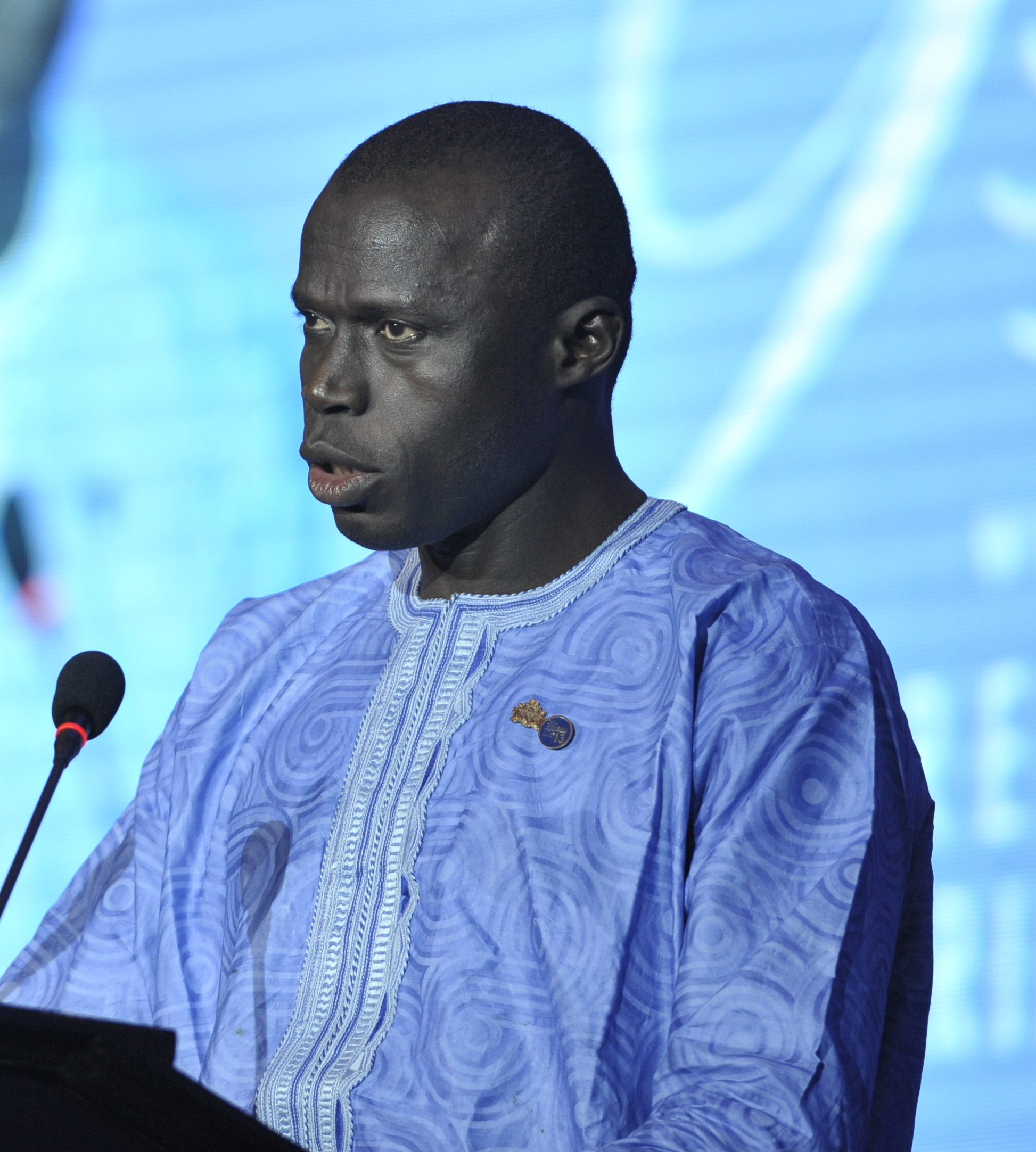 Abdou Kolley - Day 3 of the WTO's Ministerial Conference, Bali, 3 December 2013. (Photos may be reproduced provided full attribution is given.)